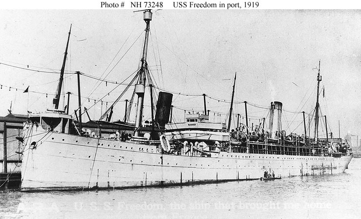 USS Freedom (ID-3024) in port, 1919., Source